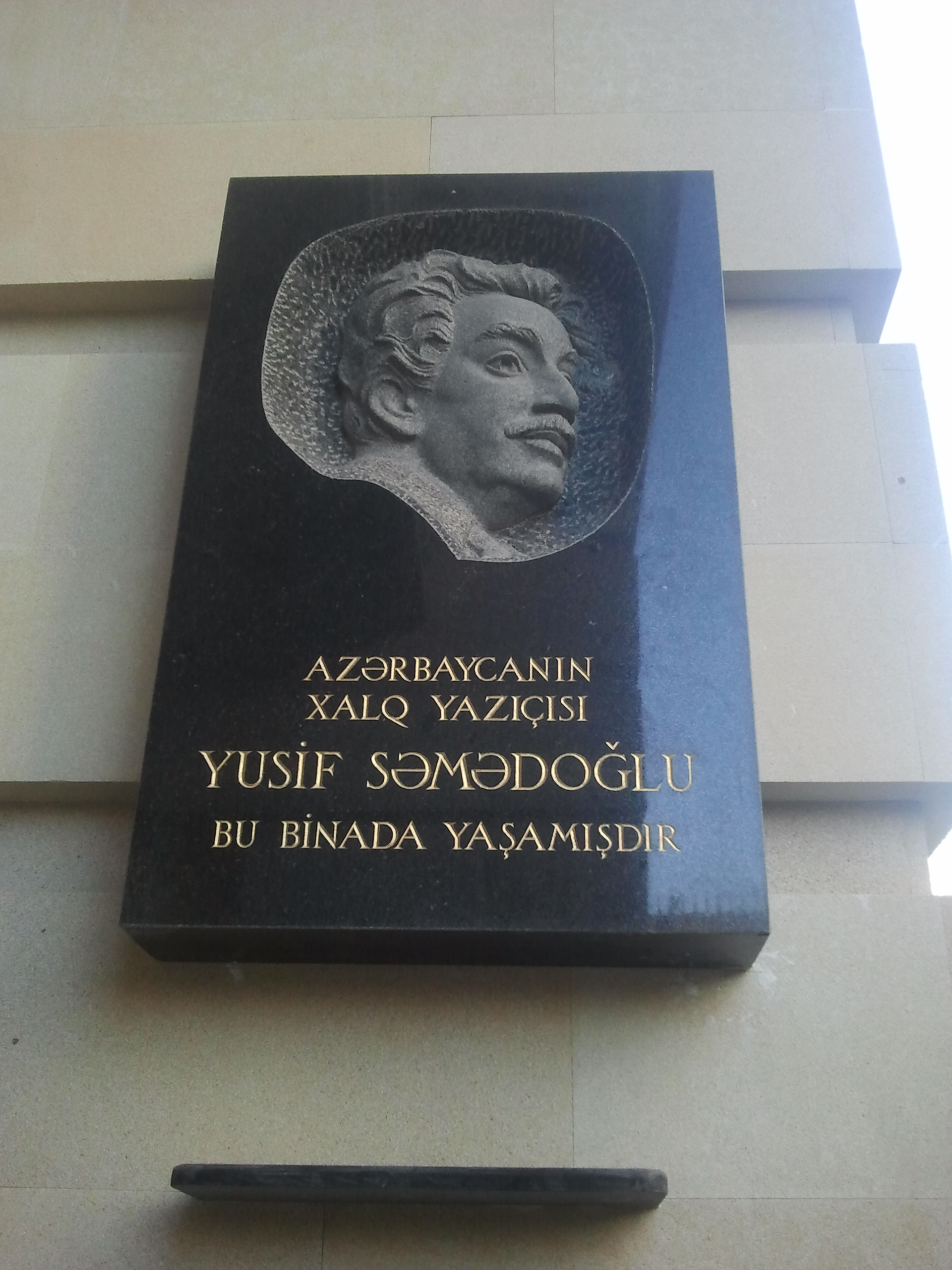 Plaque on building where Azerbaijani writer Yusif Samadoglu lived in Baku